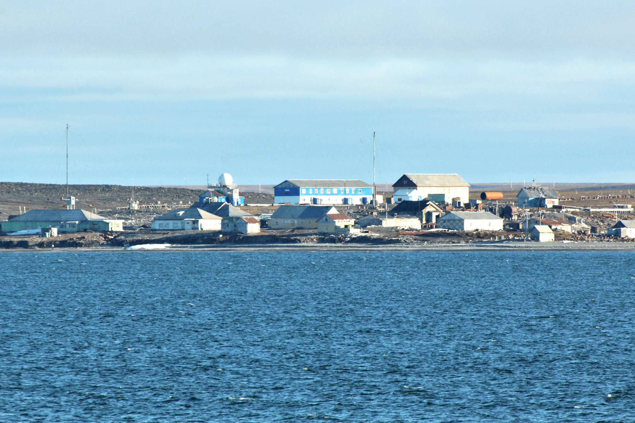 Polar Staton at Cape Chelyuskin (Northernmost point of Russian and of Eurasian mainland; 77°43’22’’N, 104°15’13’’E)